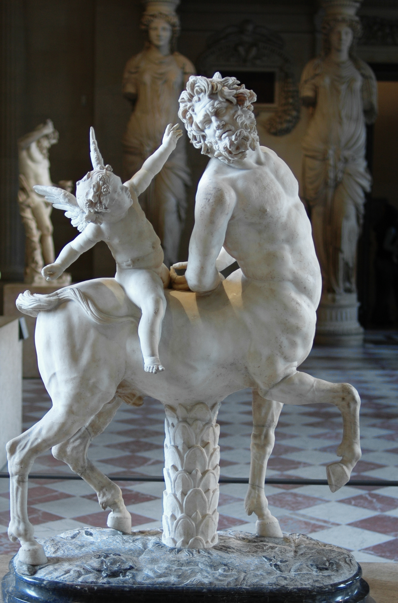 Old Centaur teased by Eros. Roman copy (1st–2nd centuries AD) of a Greek original of the 2nd century BC. Marble, found in Rome in the 17th century, belonged to the Borghese collections. A grey-black marble statue of the same type was found in the Villa Adriana in Tivoli together with a grey-black marble Young Centaur laughing at Eros's wounds. The pair, now shown in the Capitoline Museums, bear the signature of Aristeas and Papias of Aphrodisias, a city in Asia Minor. It can surmised that the Louvre statue was an element from a pair as well.